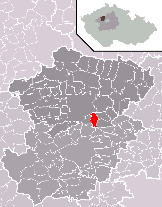 Location of Knovíz municipality within Kladno District and administrative area of Slaný as a Municipality with Extended Competence.